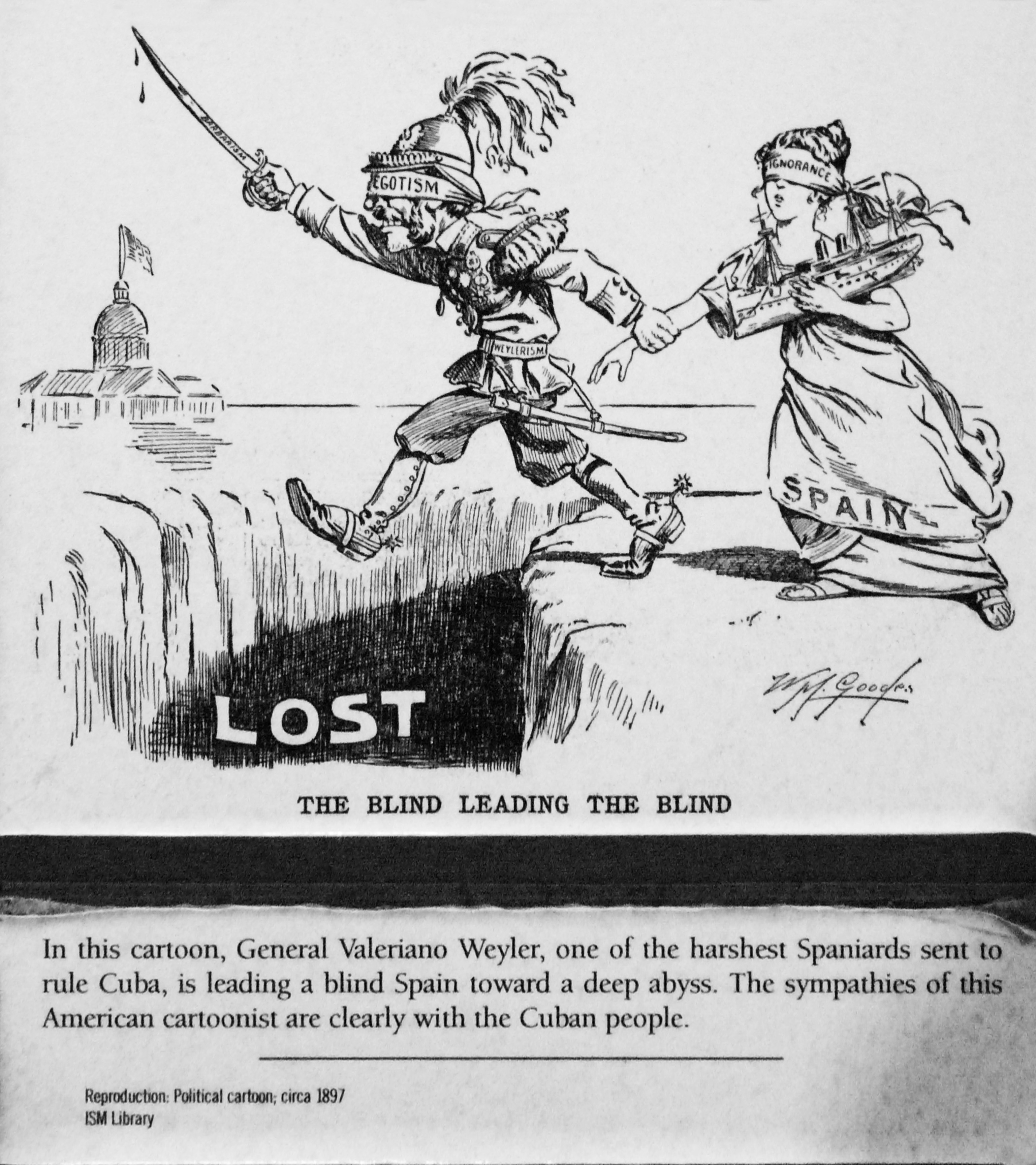 Independence Seaport Museum Photos of many items (mostly, public domain paintings) are followed by photos of official descriptions. Please transfer the description to the photos, updating the descripition here, and consider deleting the descriptions.